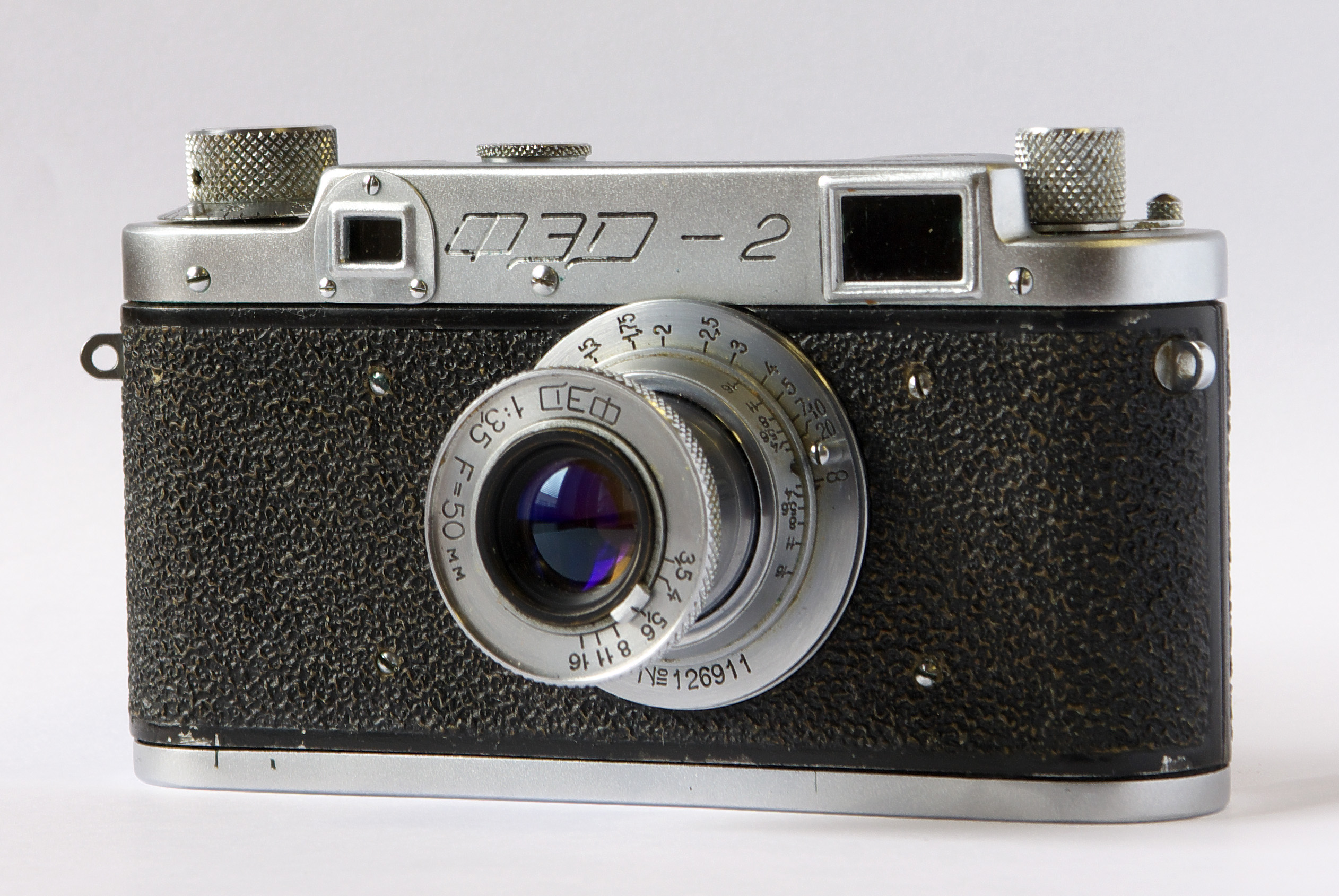 FED-2. Rare copy. Camera with square window rangefinder from the first releases.